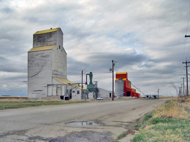 Grain elevators Nobalford, Alberta.